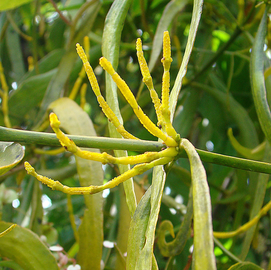 Flower of the hemiparasite, from near Boquete, Panama. In context at